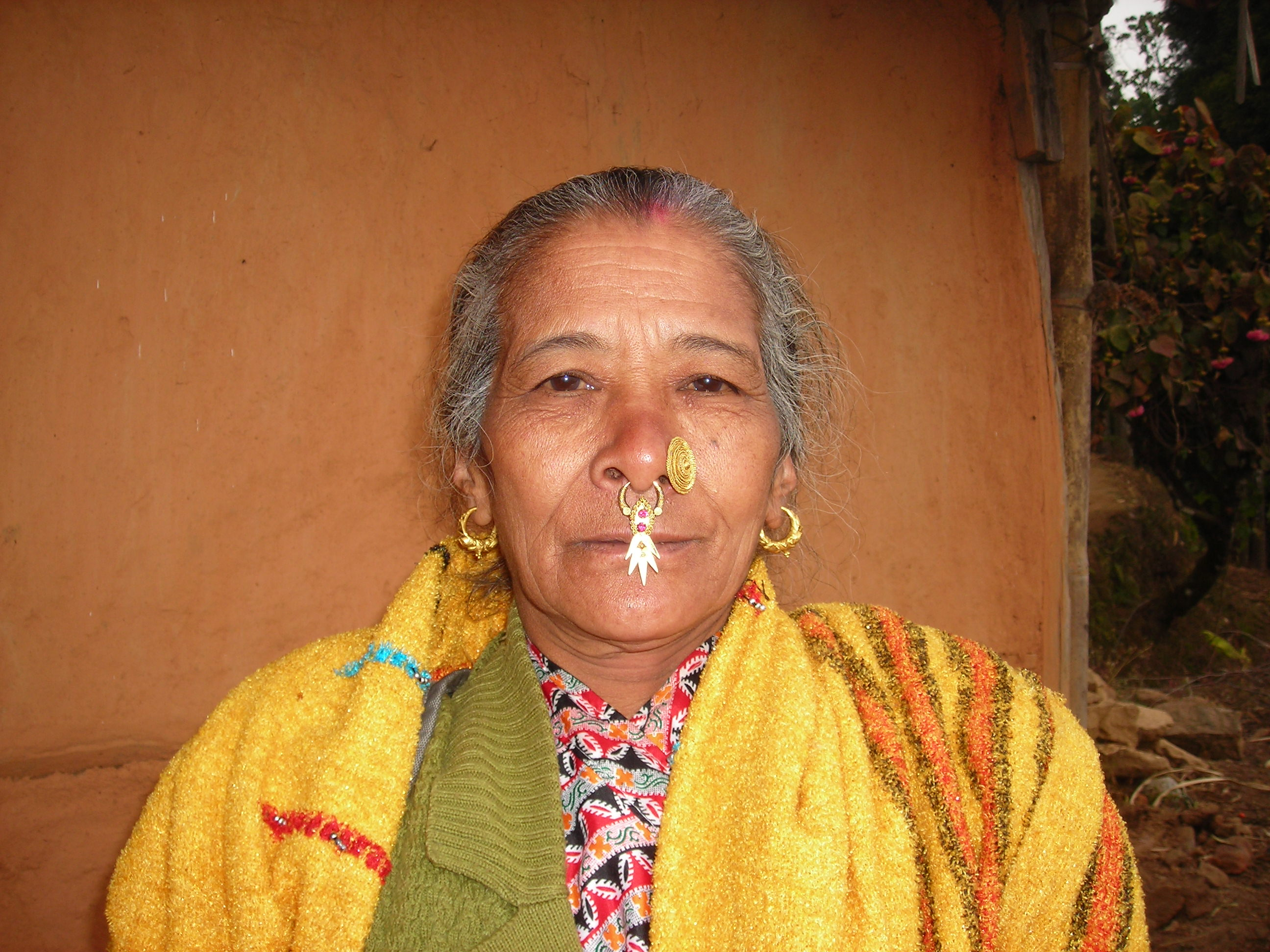 A woman in eastern Nepal wearing Jhamke Bulaki (Nepali Ornament) नेपाली: झम्के बुलाकी लगाएकी नेपाली महिला